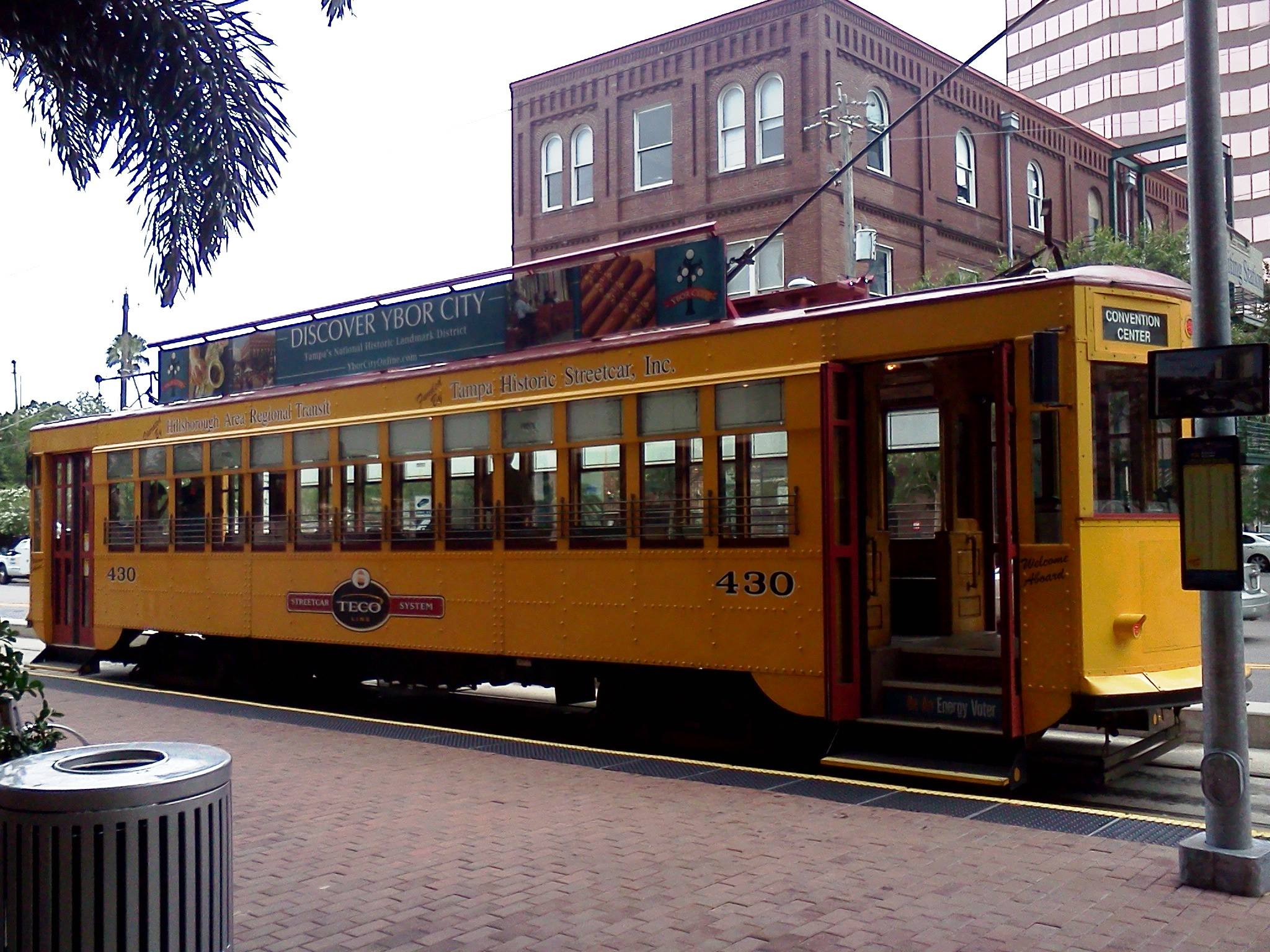 Trolley at Franklin and Whiting Street, downtown